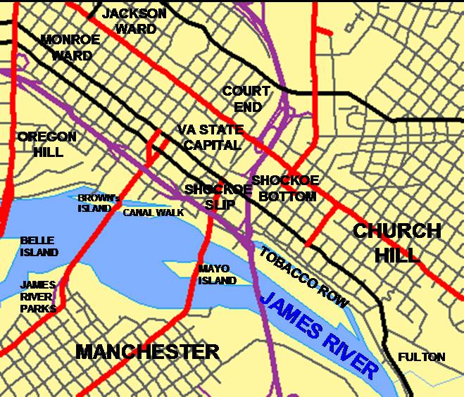 Created by User:MPS using TIGER MAP tool at the US census bureau page. Titles were added by author using MS Powerpoint and MS Paint. Oregon Hill is in the wrong place, and should be west of Belvidere St. That area is part of Monroe Ward I suspect.